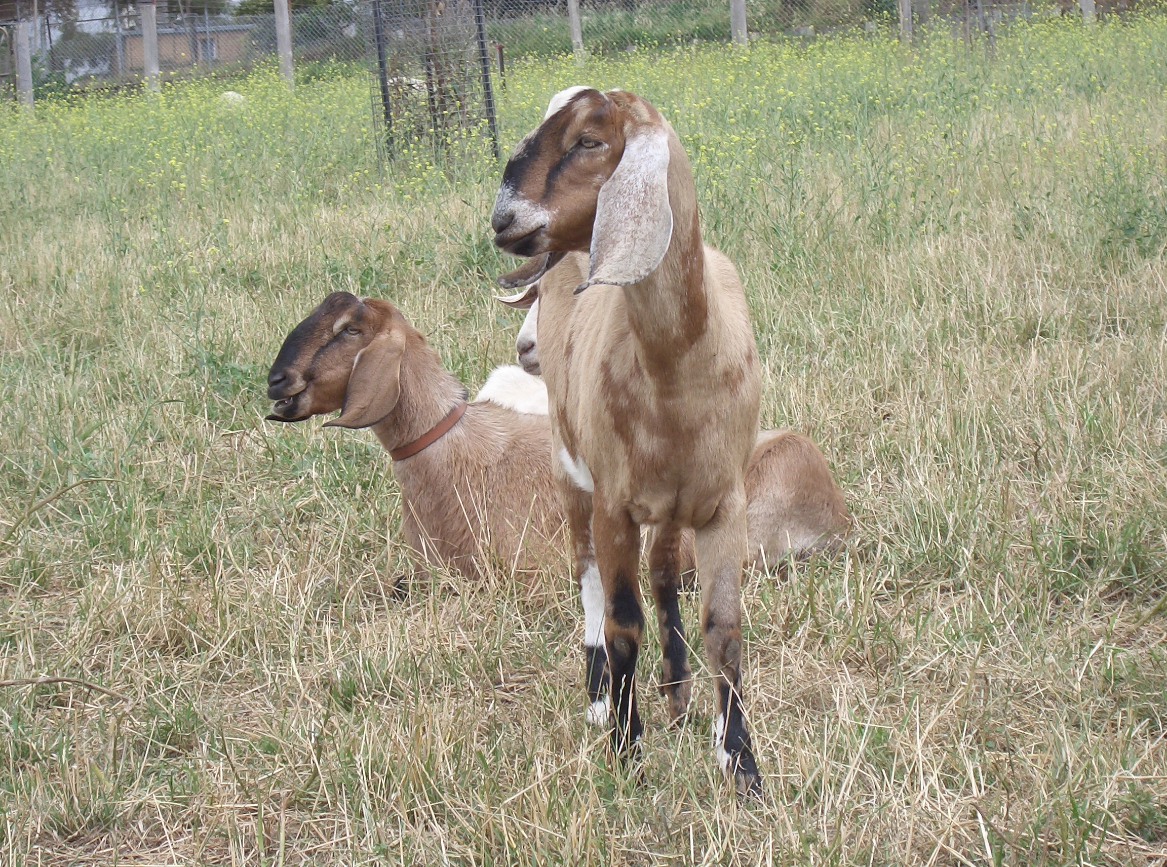 A goat at the Collingwood Children's Farm in Melbourne. According to their website, their goats are either "pure bred Anglo Nubian goats [or] Anglo Nubien x Saanen goats". Pretty sure these guys are pure-bred Nubians.